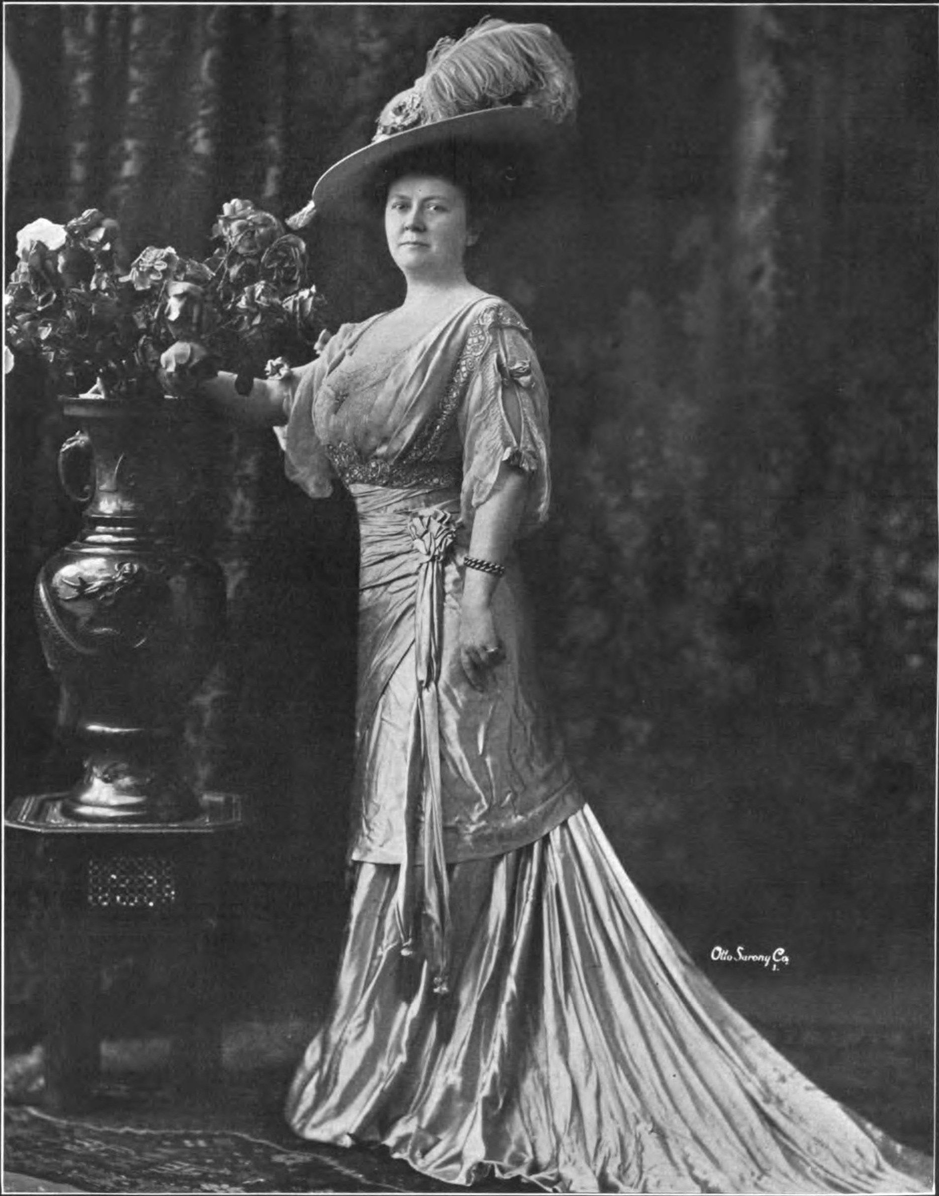 Camille d'Arville was a musical theatre actress in the first decade of the 20th century